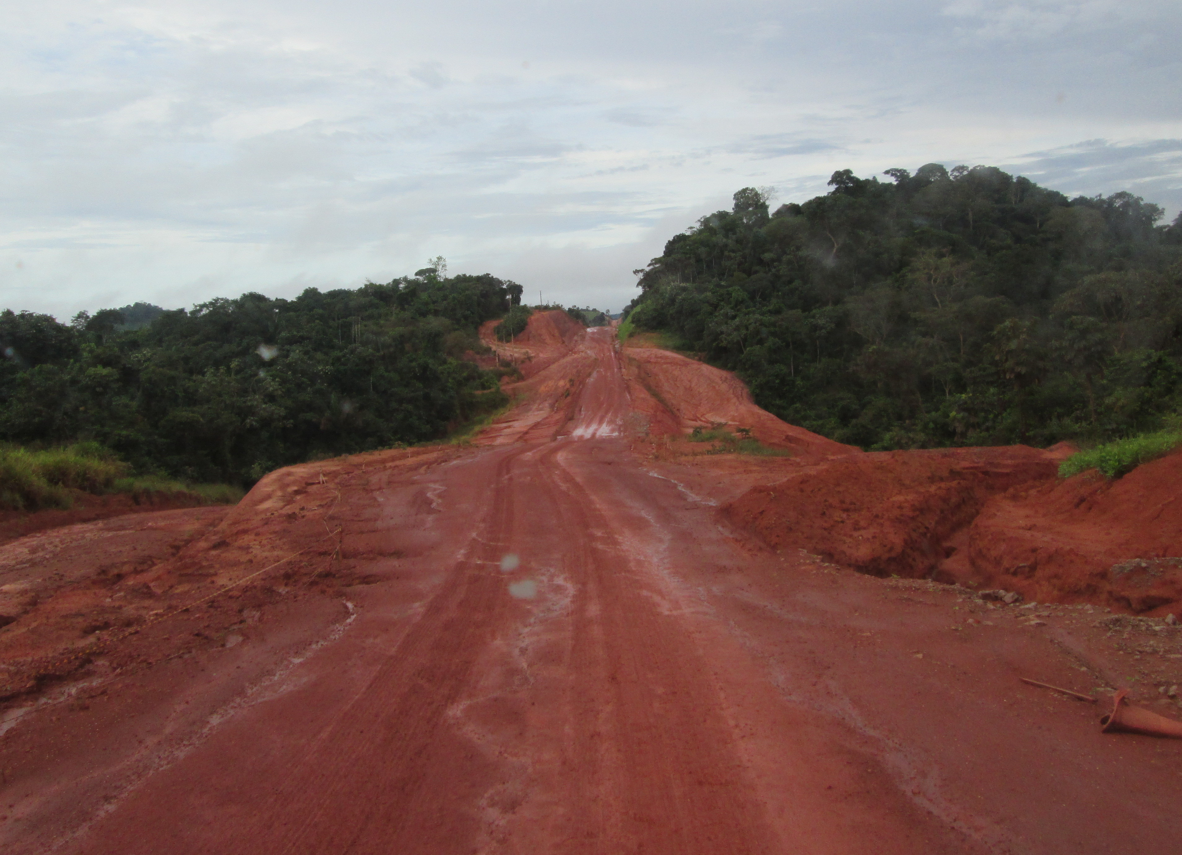 A photo of an unpaved portion of the Tranzamazonian Highway, taken between Rurópolis and Uruará.